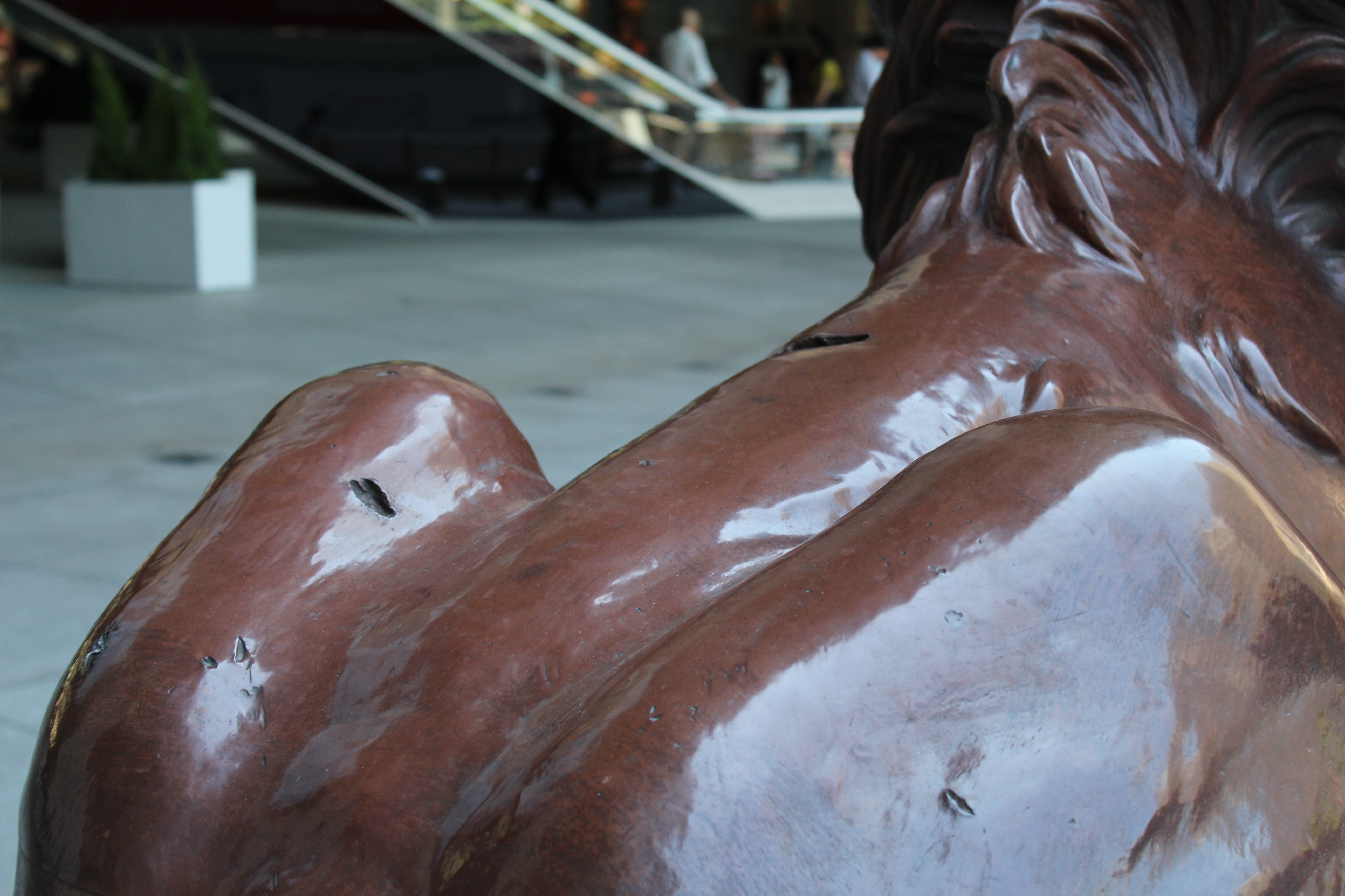 Stephen and Stit, the lions of HSBC Hong Kong headquarters building, Hong Kong